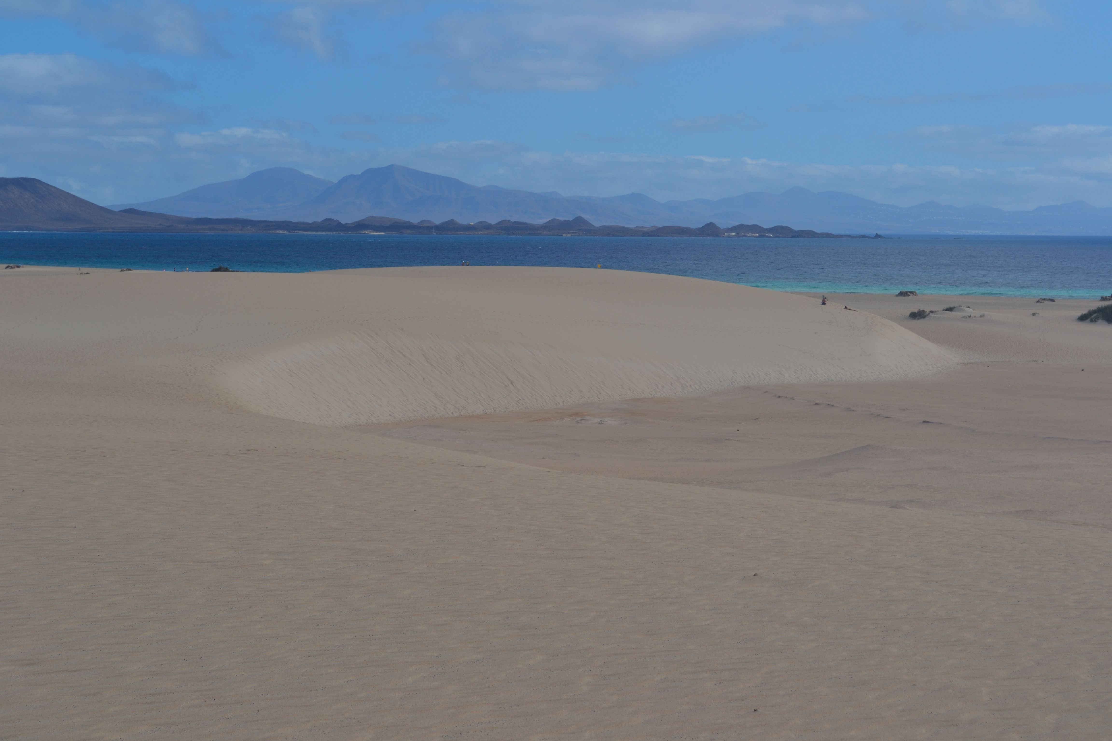 Dunes of Corralejo (Fuerteventura), in the background the island of Lobos and Lanzarote. This is a photography of a Special Area of Conservation in Spain with the ID: ES7010032. Natura2000 entry, EEA entry